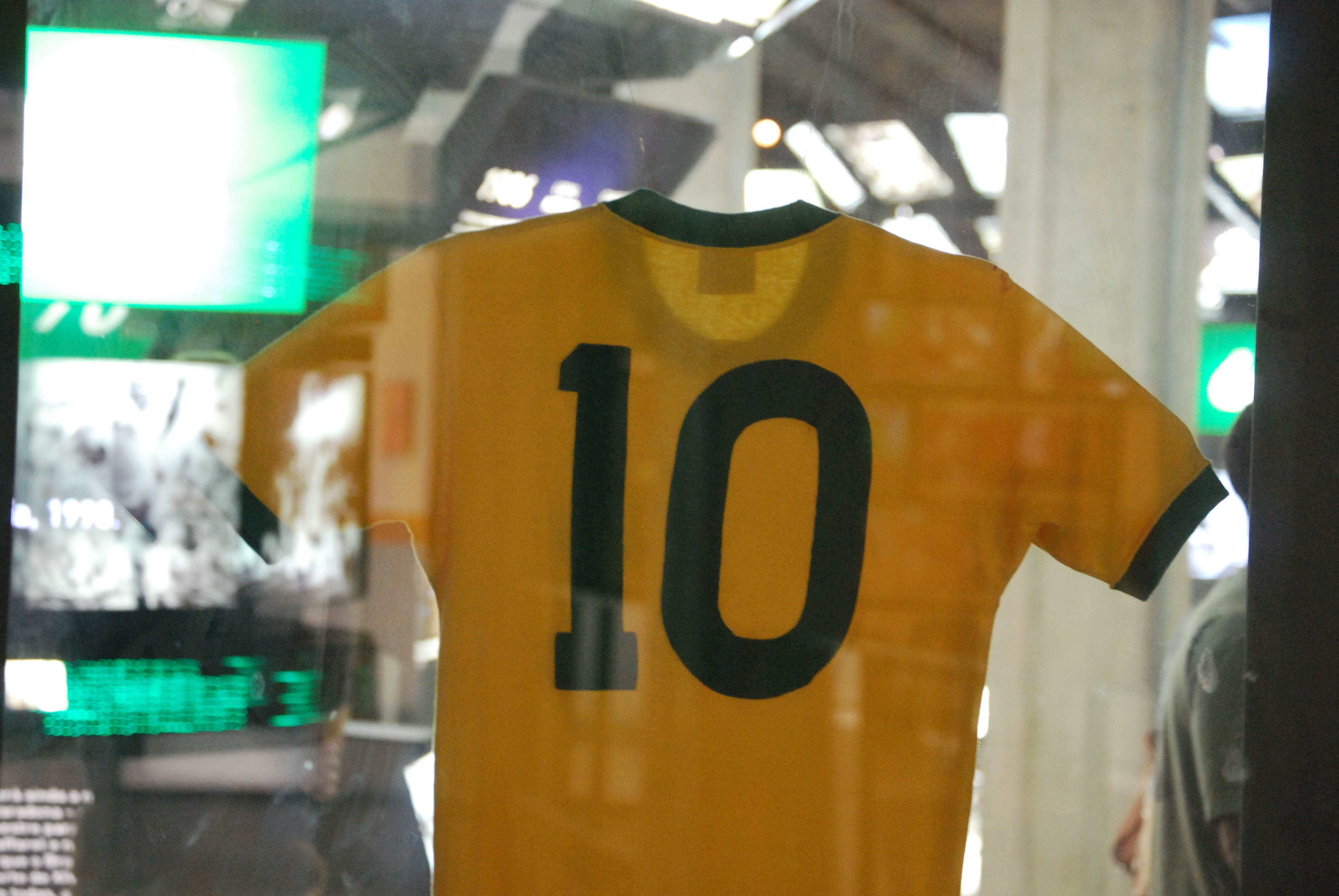 Pelé shirt, Museu do futebol, Maracanã, RIo De Janeiro, Brazil